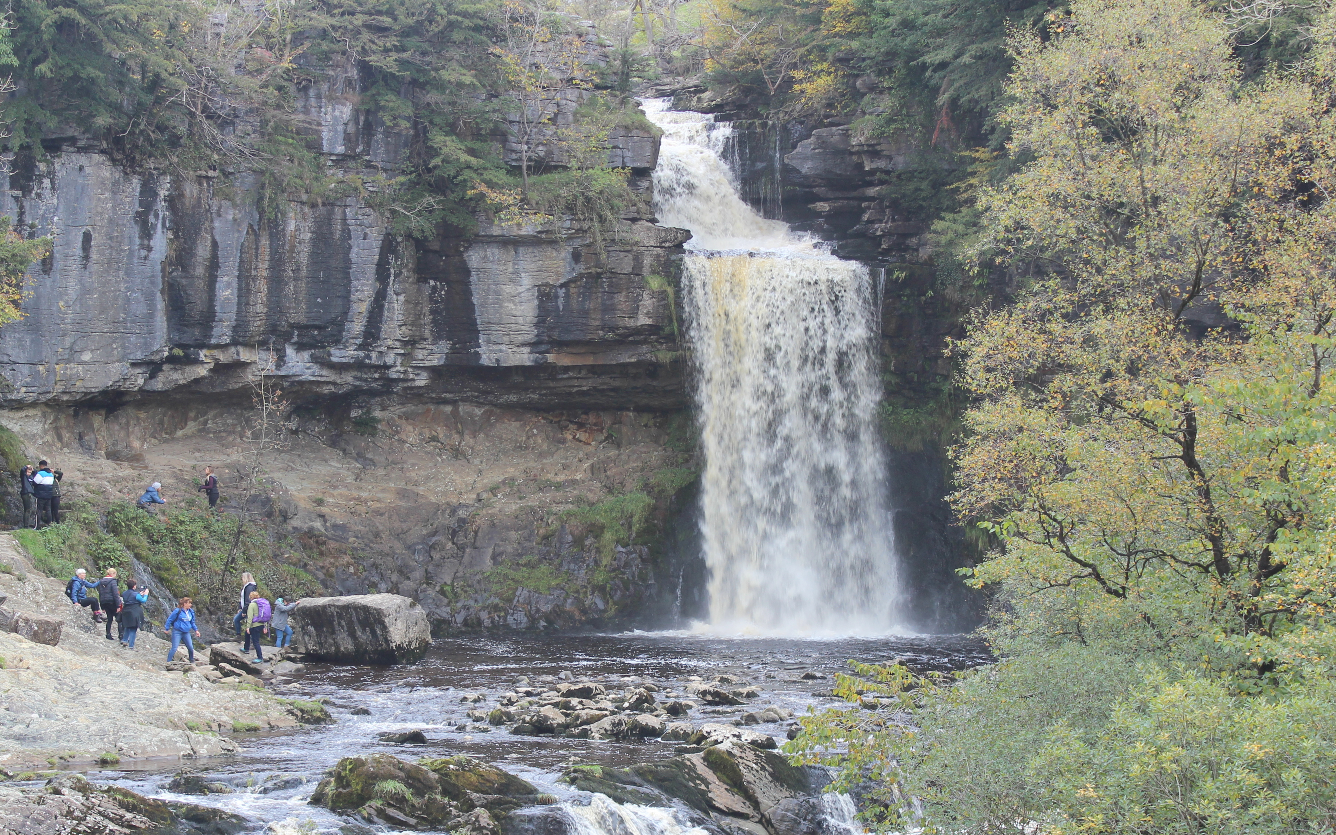 Thorntons Force where the River Twiss drops 14 metres over a limestone cliff. It is the first of five waterfalls on River Twiss leg the 8 km Ingleton Waterfalls Trail. The falls, which are within the Yorkshire Dales, form the subject of a drawing by J. M. W. Turner, now part of the Tate Collection.